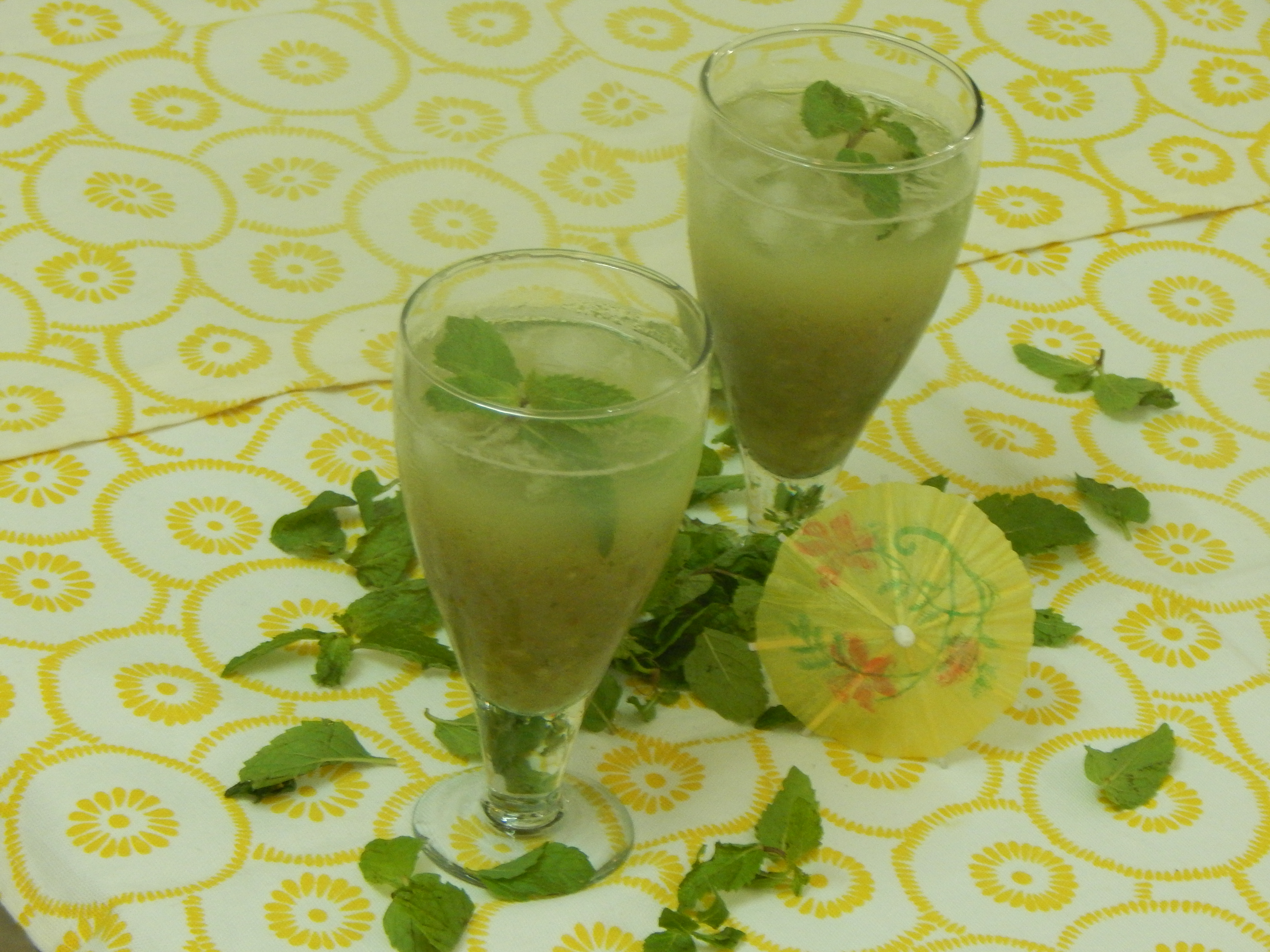 Aam panna made from raw mangoes is a tangy summer cooler and cool to beat the summer heat. Green mango panna or aam panna is a great remedy for heat stroke and dehydration.